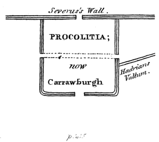 "PROCOLITIA; now Carrawburgh". Engraving from page 215 of The History of the Roman Wall by William Hutton. Printed by John Nichols and Son, London, 1802.